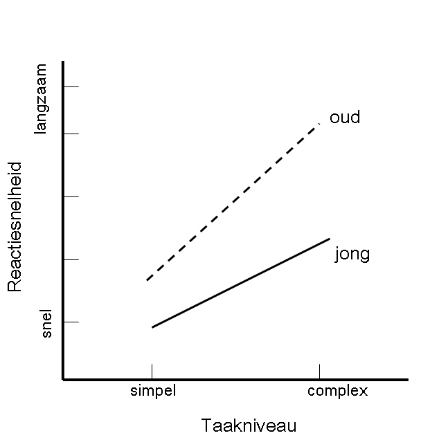 complexiteitseffects